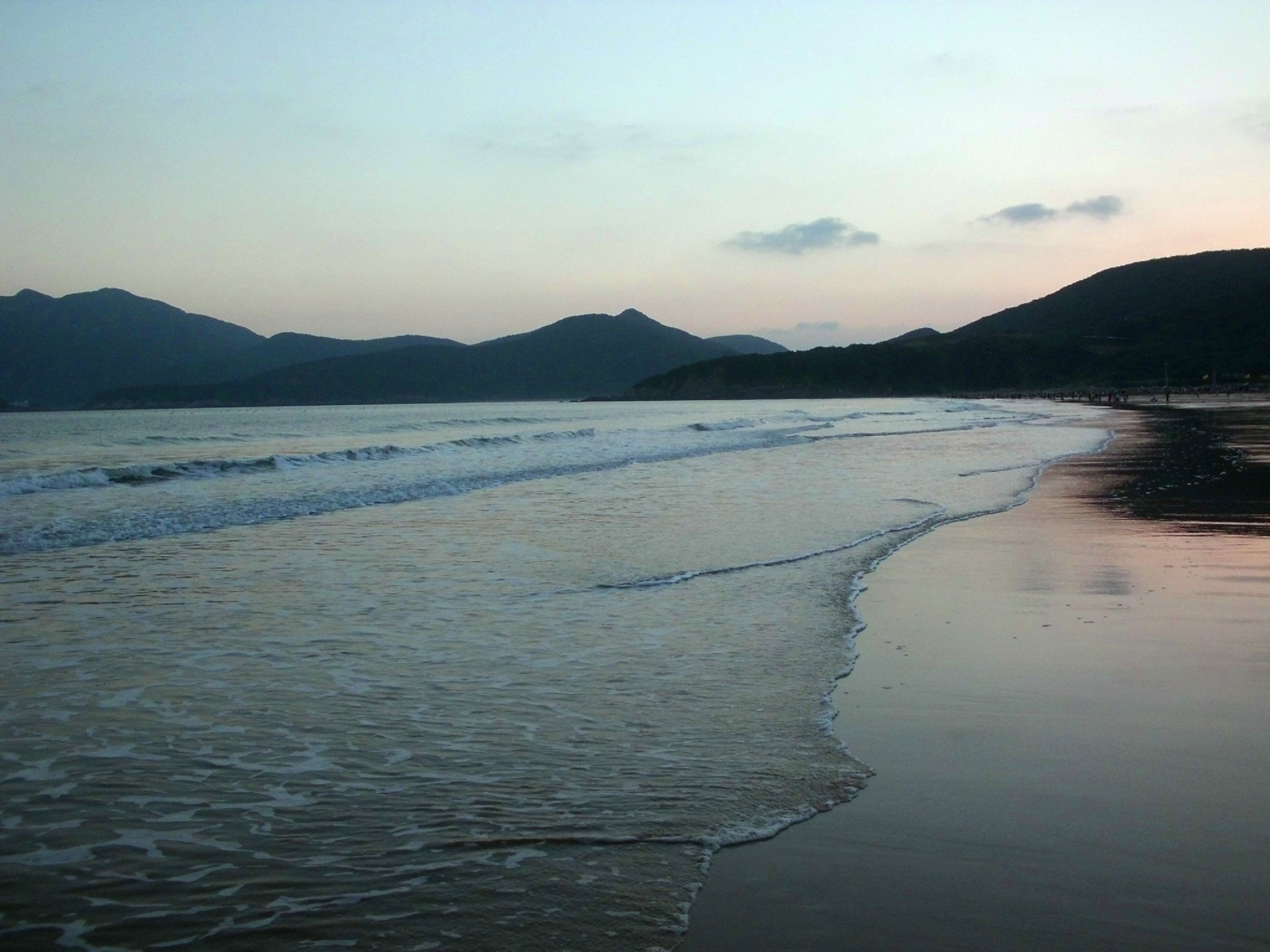 Zhujiajian Island